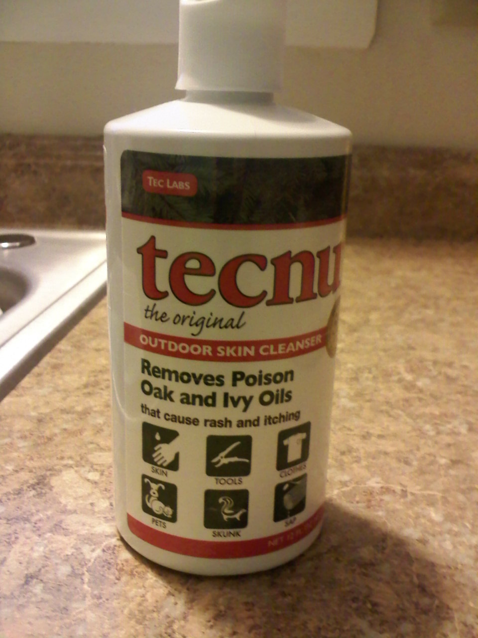 12 oz bottle of tecnu, an Urushiol.